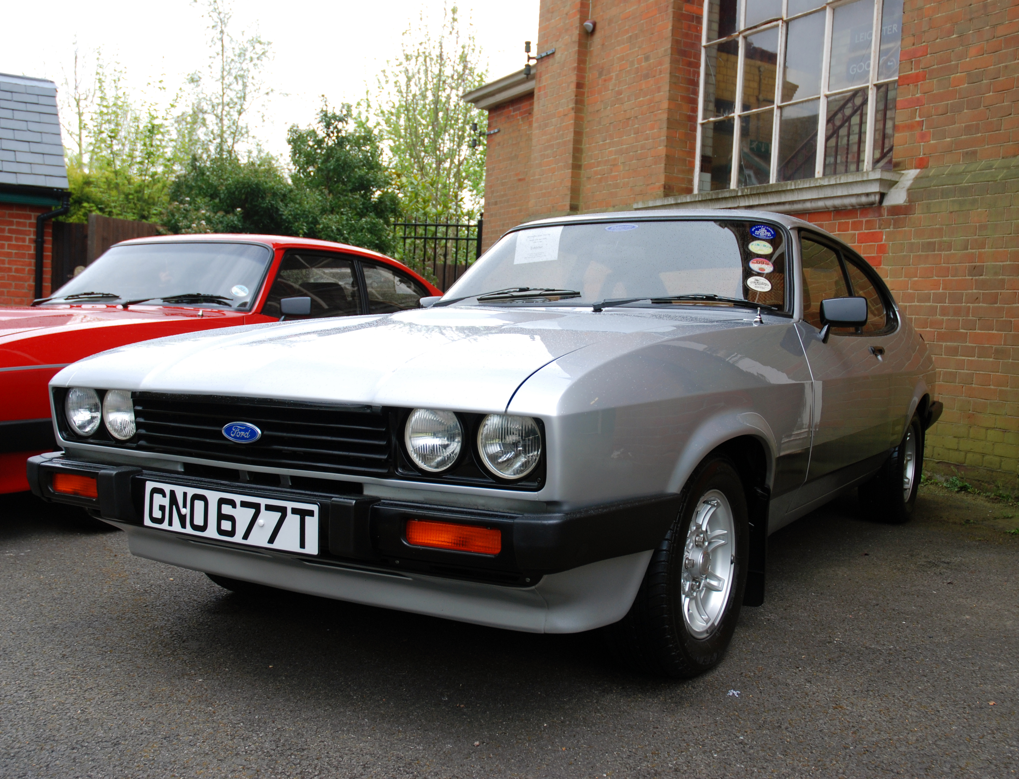 Classic Ford Day,Whitewebbs Museum of Transport,Enfield,Apr 2008